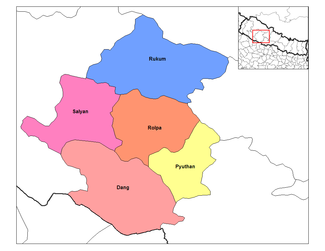 Map of the districts of Rapti Zone (wp-EN) in Nepal. Created by Rarelibra 19:33, 18 September 2006 (UTC) for public domain use, using MapInfo Professional v8.5 and various mapping resources.